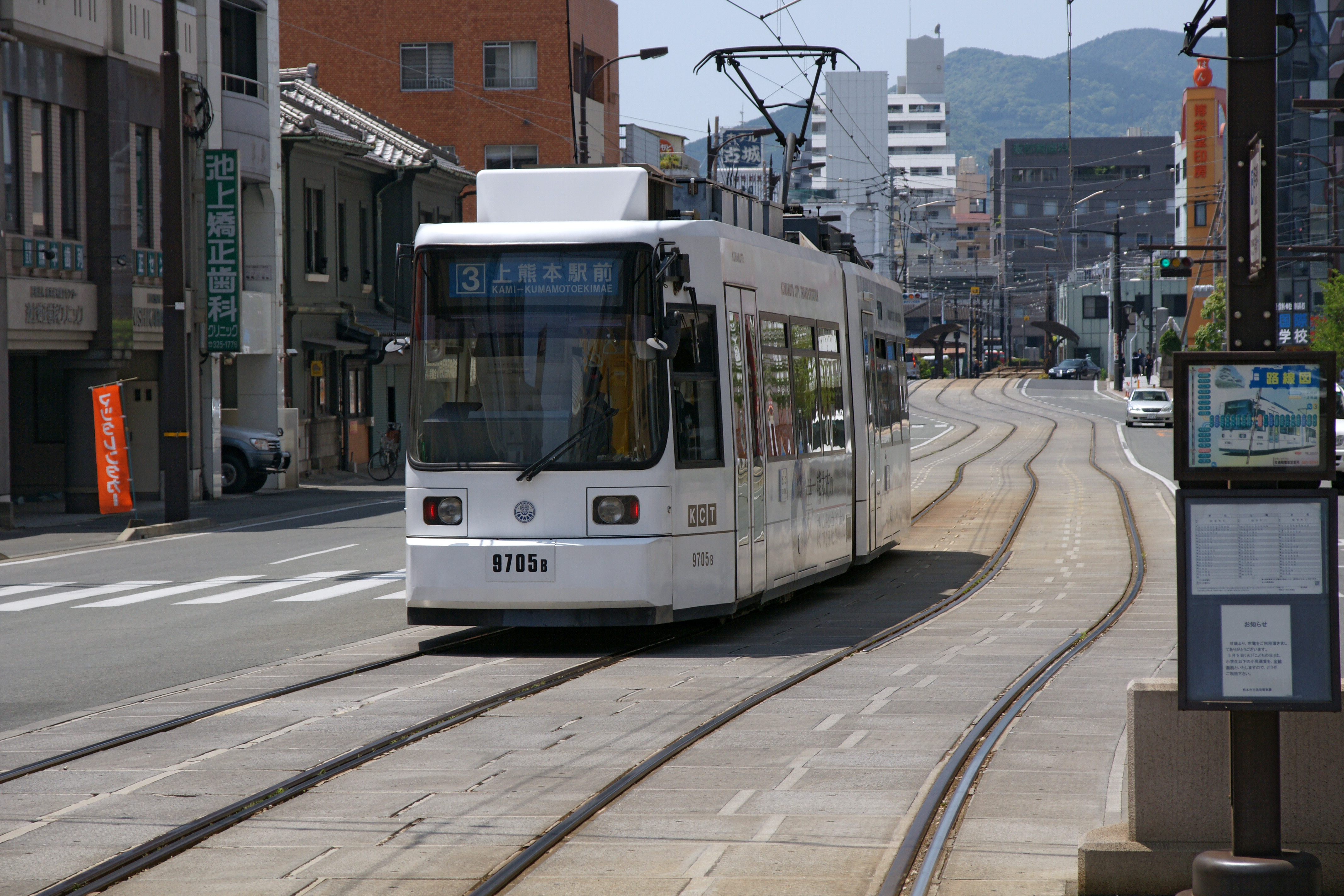 Nishikarashimacho Station, Kumamoto, Kumamoto prefecture, Japan